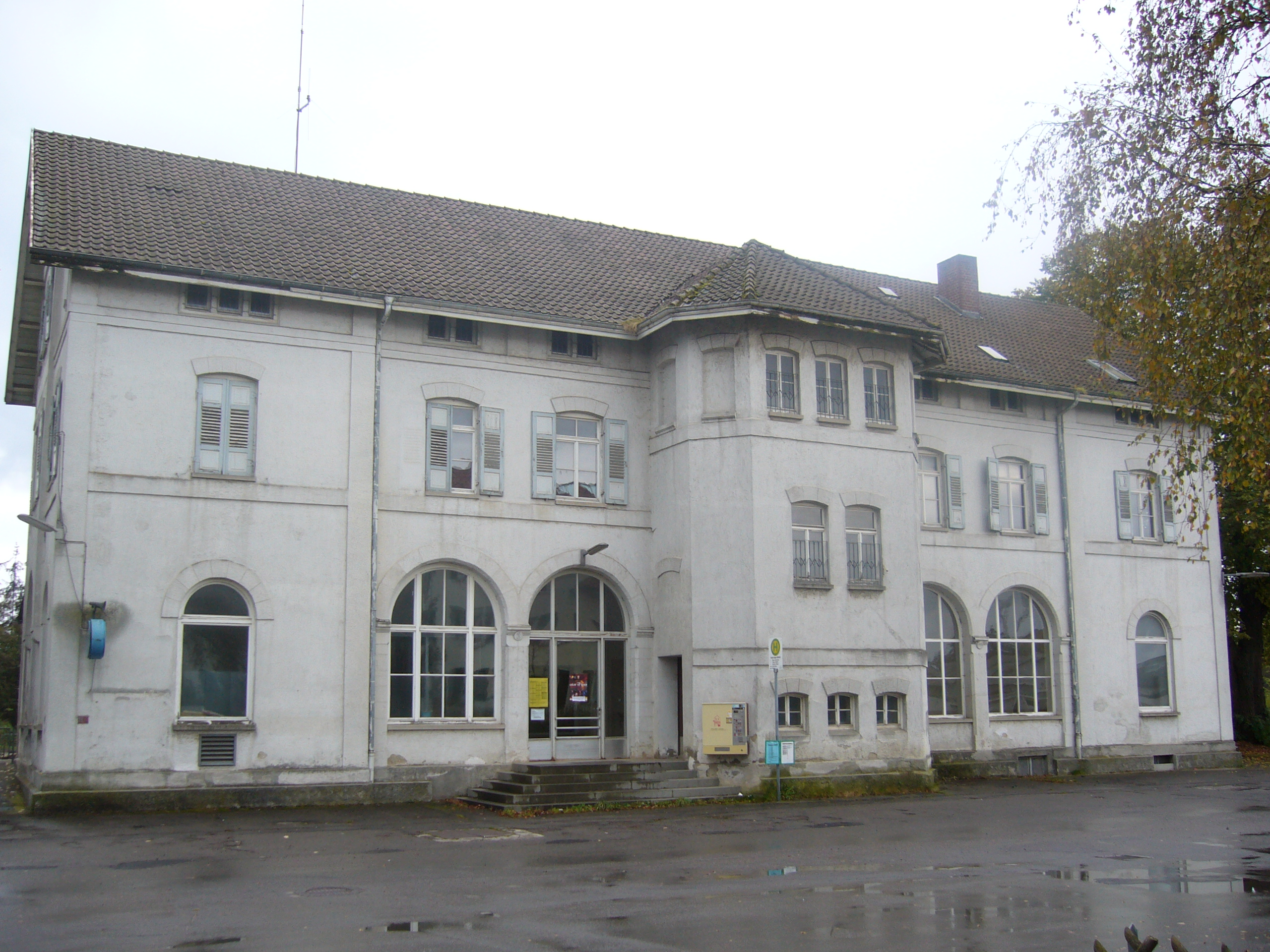 Herbertingen train station building, Germany